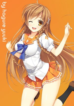 Mirai Suenaga in her summer school uniform by Hagure Yuuki.